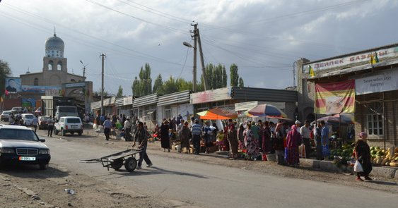 The Main Bazaar of Isfana